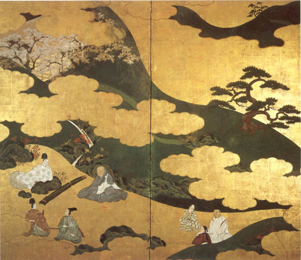 Genji Monogatari (Tale of Genji), ink and color on gold paper mounted as a two-panel screen attributed to Tosa Mitsuyoshi, 16th or early 17th century Japanese, Honolulu Academy of Arts